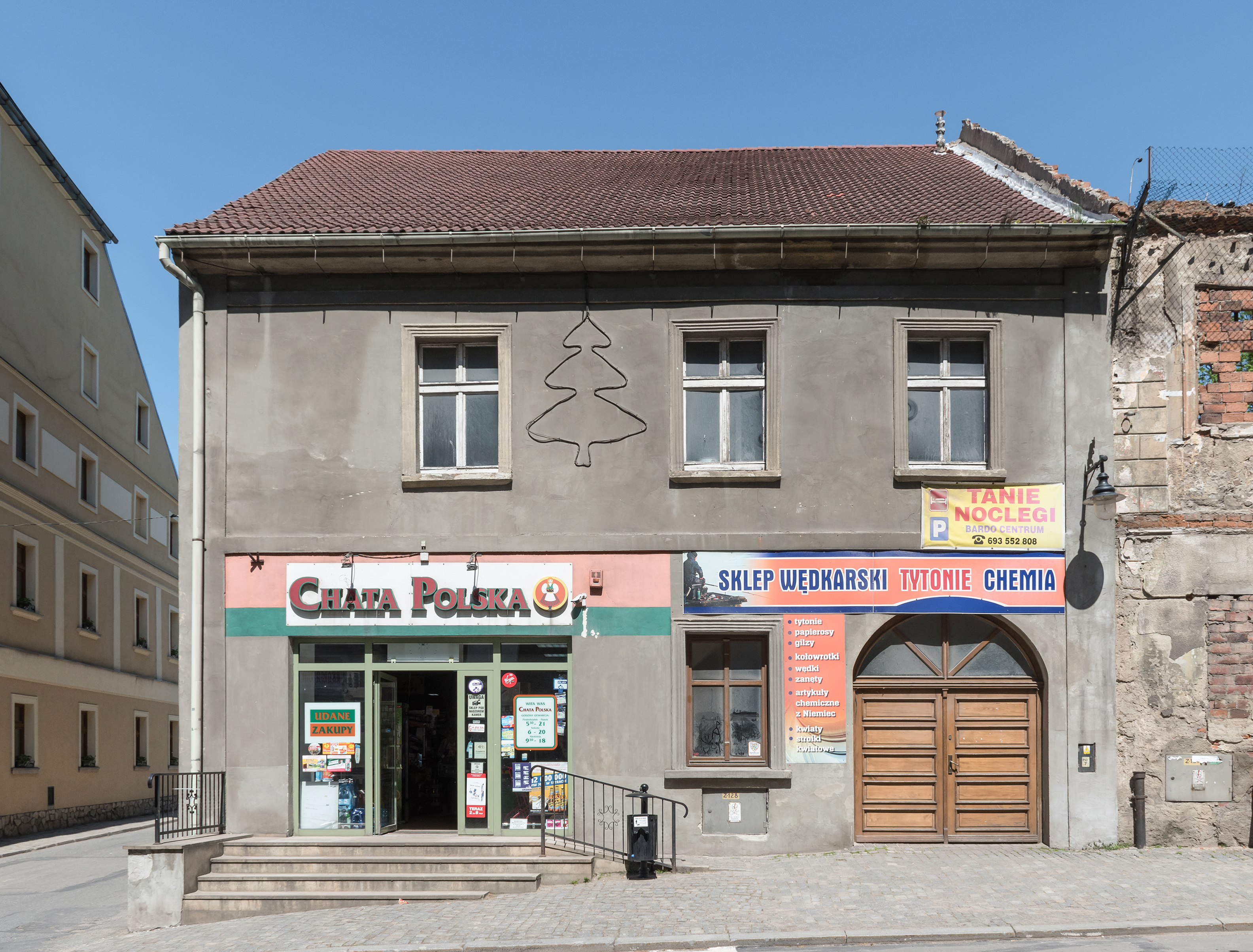 25 Główna Street in Bardo